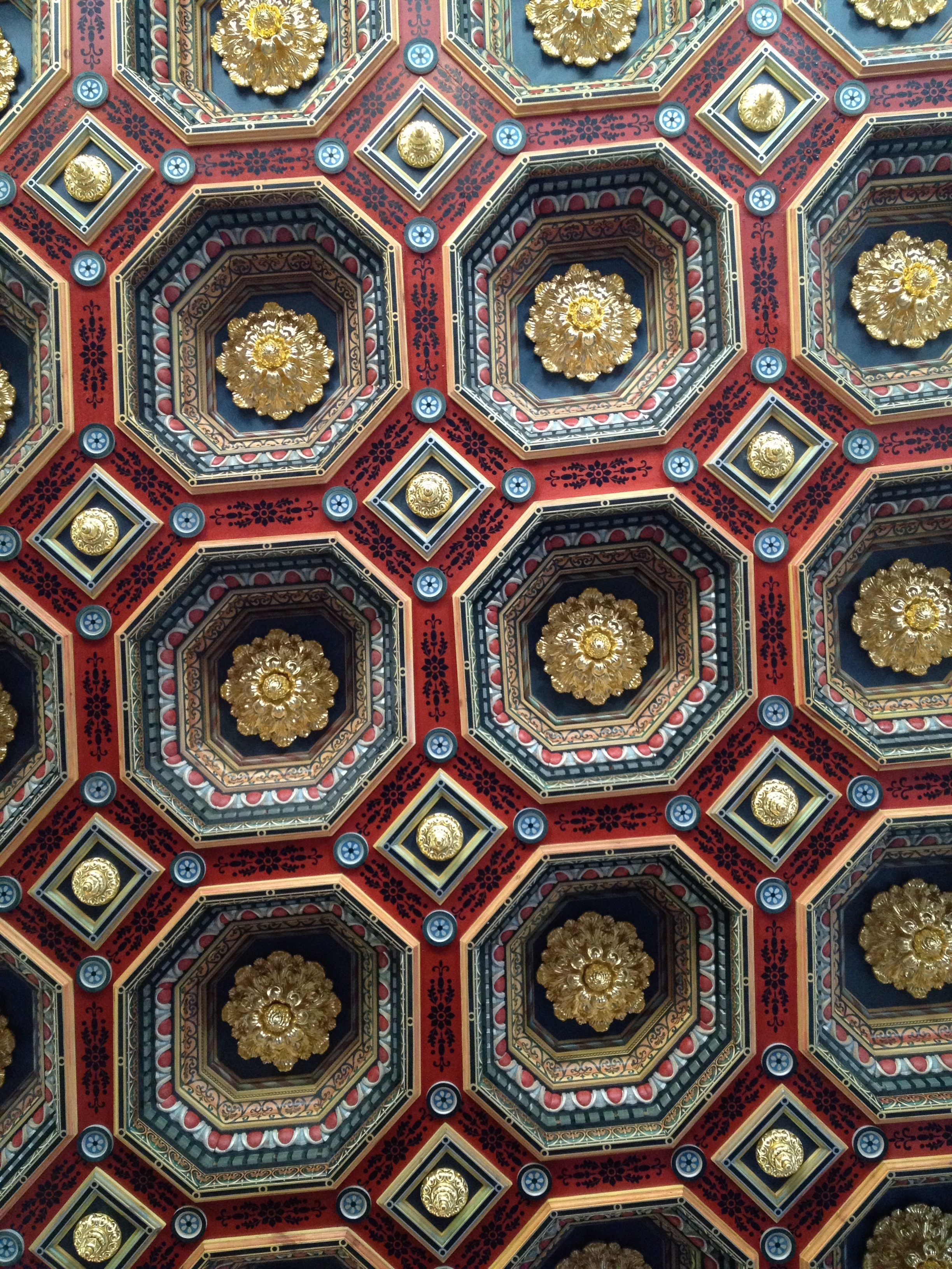 Coffered ceilings of Mir Castle